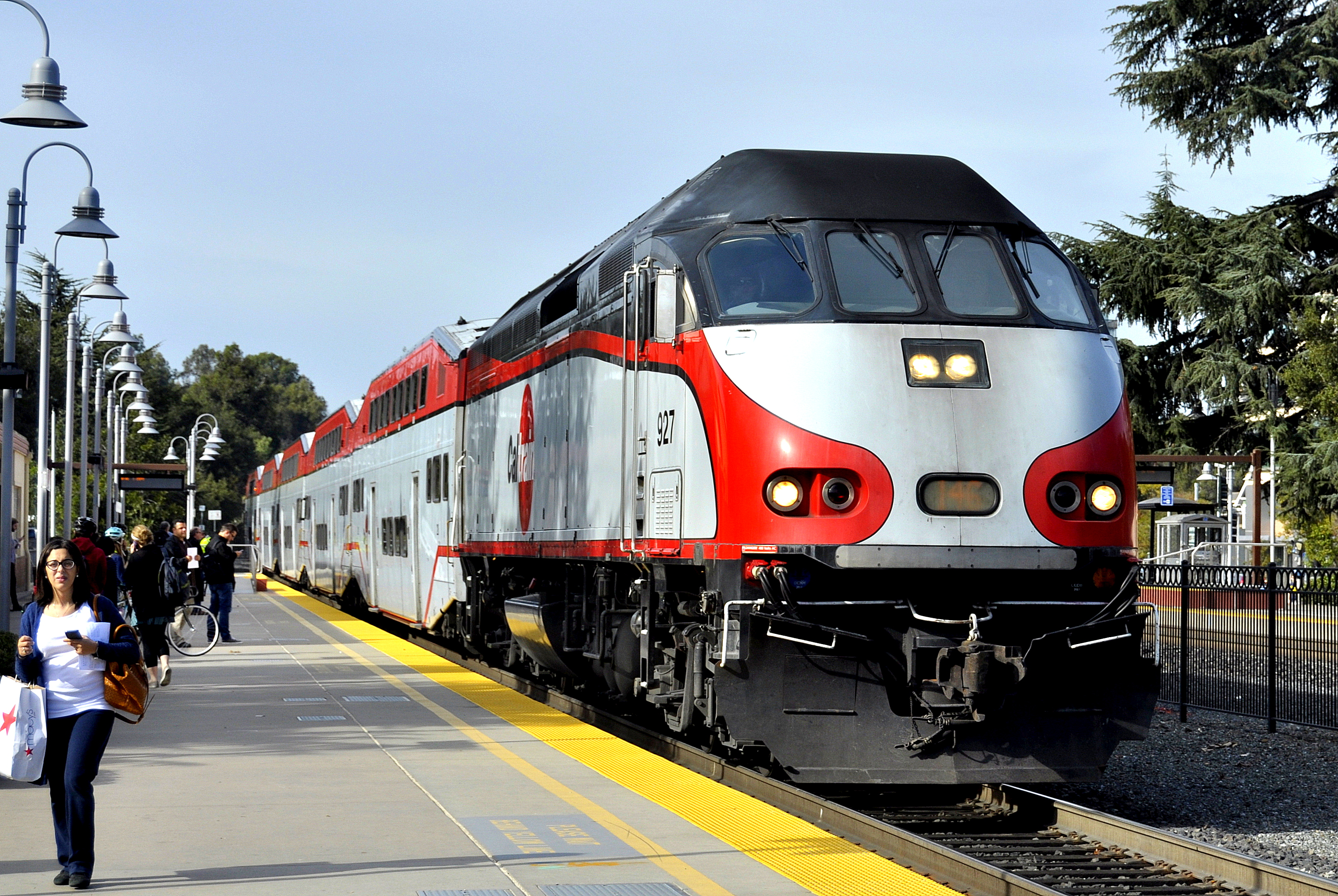 Caltrain JPBX 927 at Palo Alto station